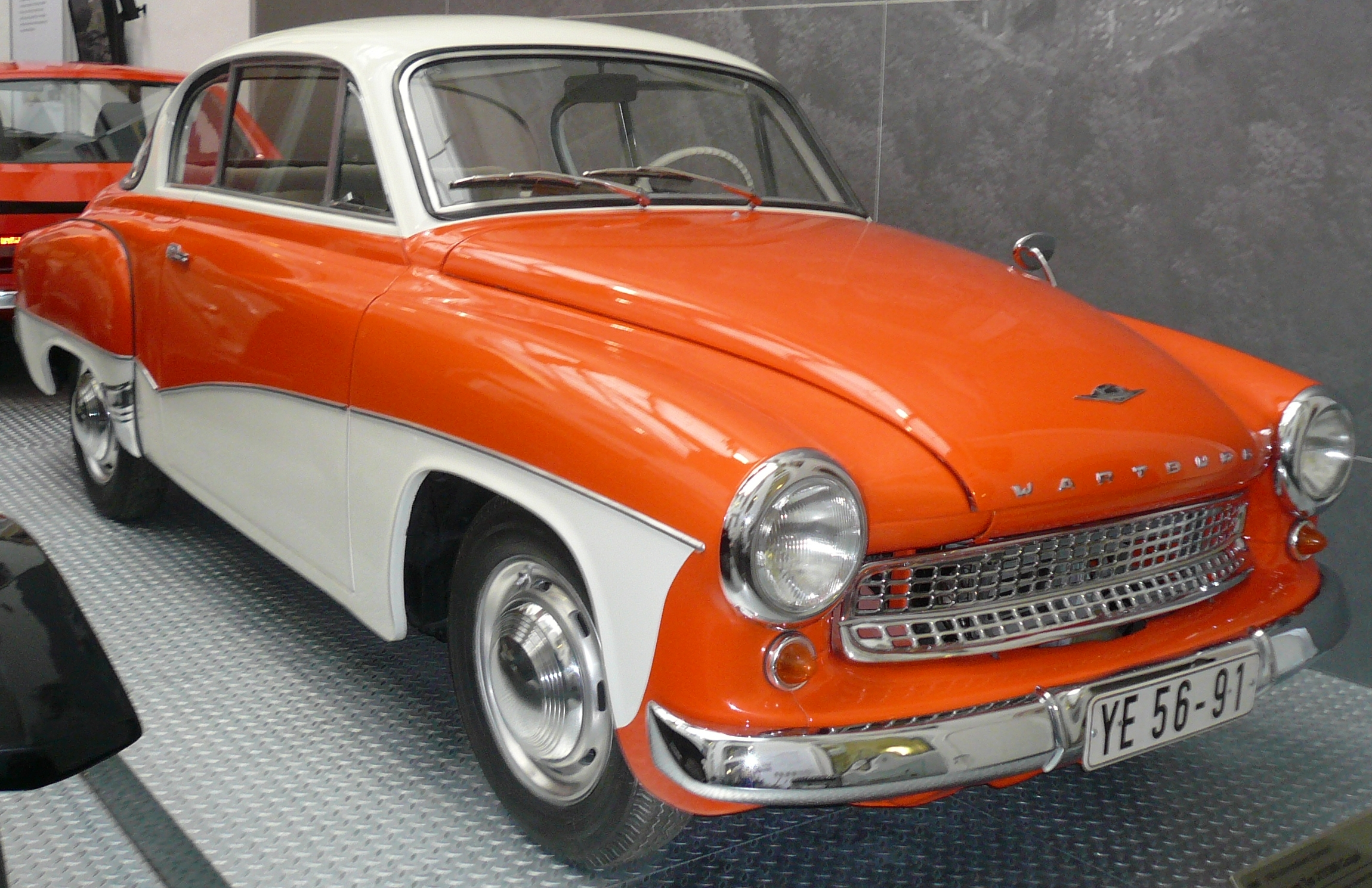 IFA Wartburg Typ 311/300 Coupe, 1960. Photo from Museum of Transport, Dresden, Germany.